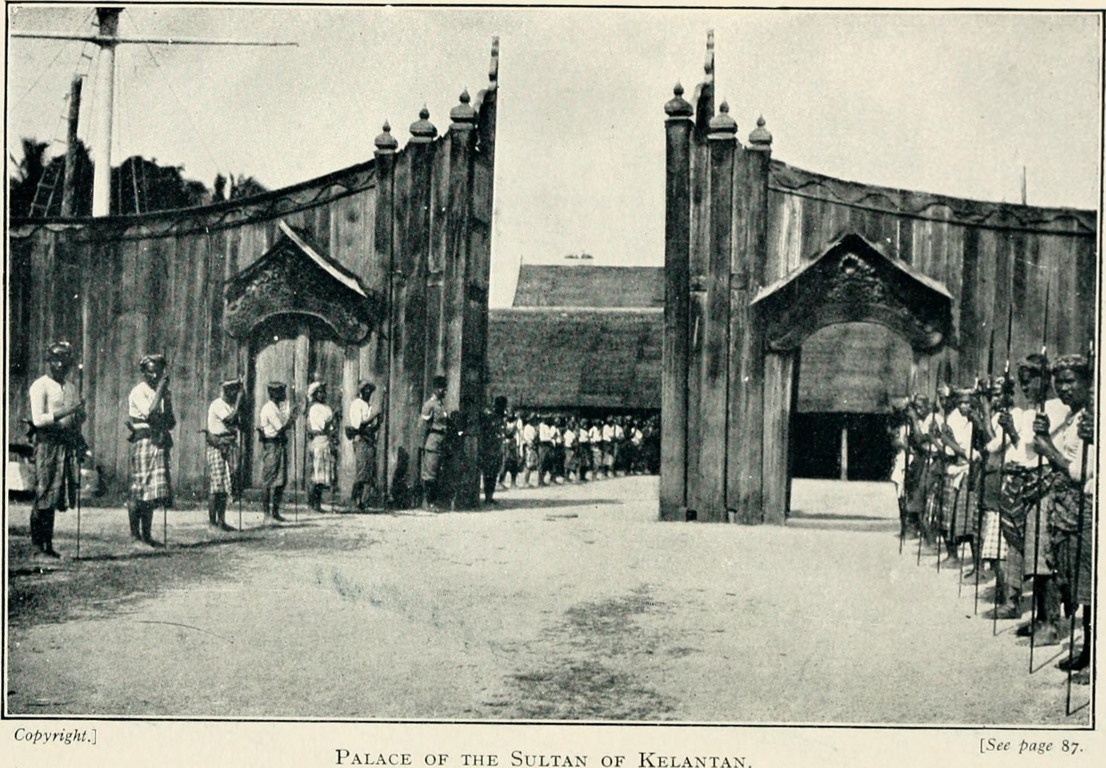 Identifier: searoadtoeastgib00sargrich Title: The sea road to the East, Gibraltar to Wei-hai-wei; six lectures Year: 1912 (1910s) Authors: Sargent, Arthur John Subjects: Voyages and travels Publisher: London, Philip Text Appearing Before Image: Copyrigh Malays ox Plantation. {See page 85. Text Appearing After Image: THE MALAY REGION 81 life to this old-world settlement. Here is a glimpse of 16the river and here a street in the town ; it is picturesque 17enough, but we miss the life and bustle which we haveseen at Singapore. The island of Penang, together with the strip of themainland opposite, was leased by us from the Sultanof Kedah, over a hundred years ago, at a time when therest of the coast was more or less under the influenceof the Dutch. The rent is still paid regularly to theSultan for the time being. In 1824, we came to anagreement with the Dutch who withdrew all claim to the Straits, while we left them undisturbed in the islandregion further south. This withdrawal of the Dutch,and the possession of Singapore, gave us the entirecontrol of the Straits of Malacca. Since that time therehave been some small additions to the area of Britishterritory, but our chief work has been to bring the nativeStates within our Sphere of Influence. The result inthe last century, as we have already seen, was